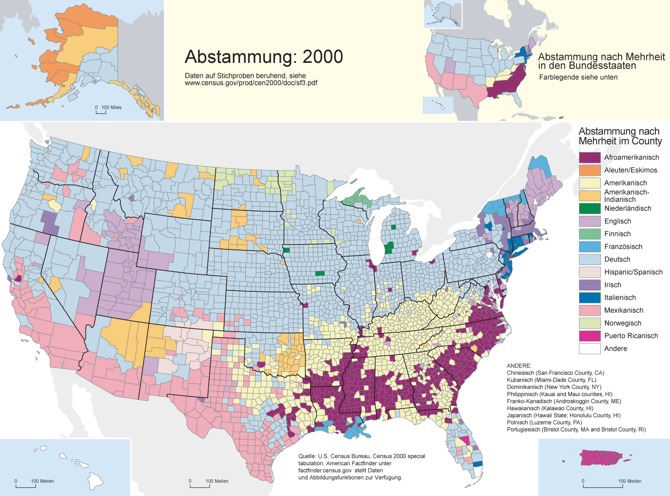 U.S. ancestry according to plurality in counties.